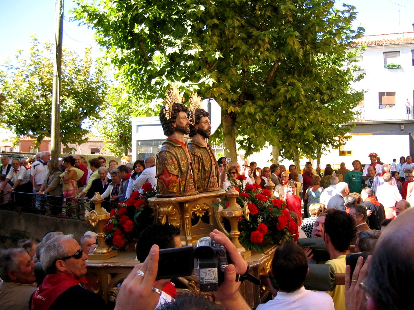 Figures of Saints San Cosme and San Damián, patron saints of Arnedo, La Rioja, Spain during the local festivities of the town.